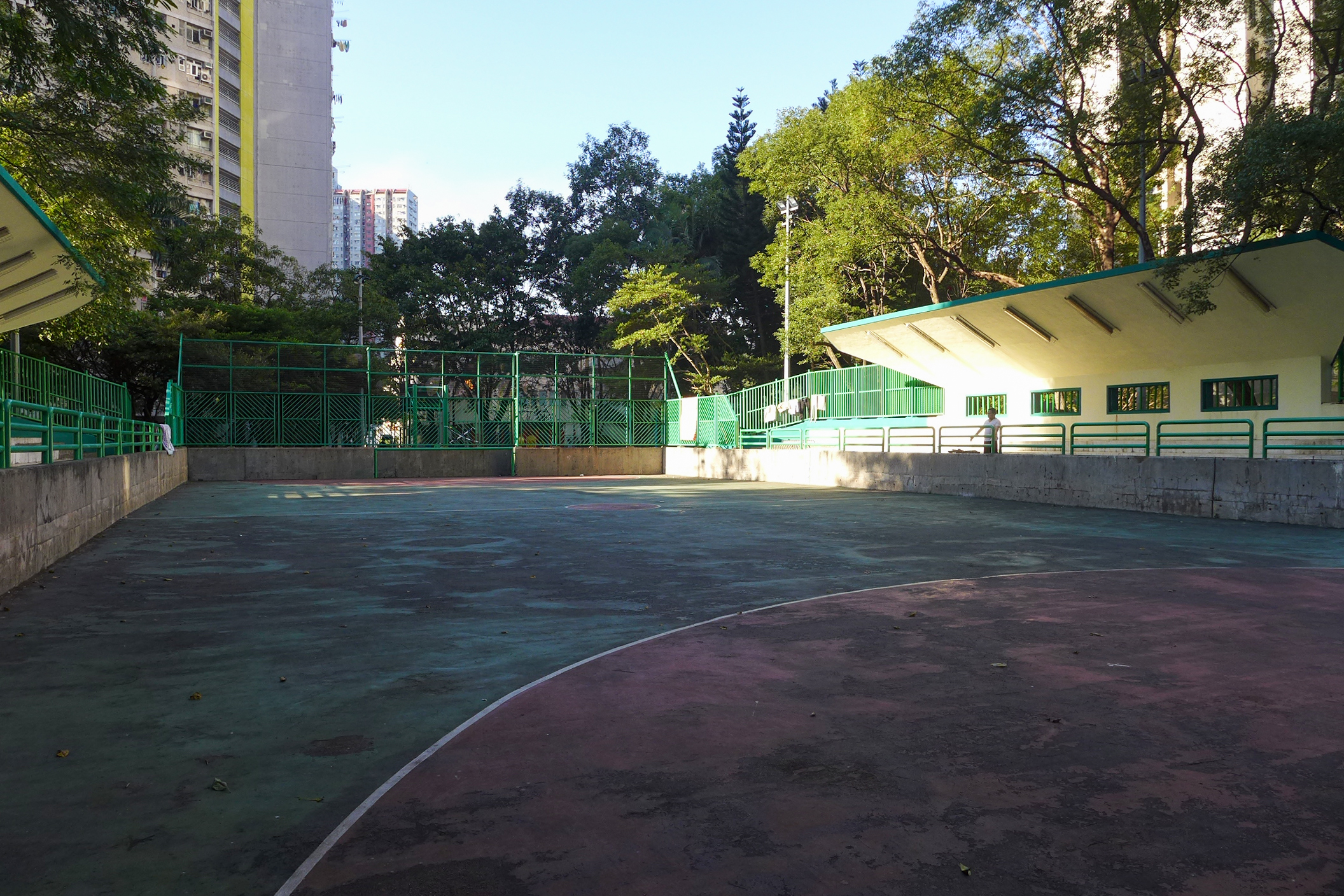 Tin Ping Estate Soccer Court